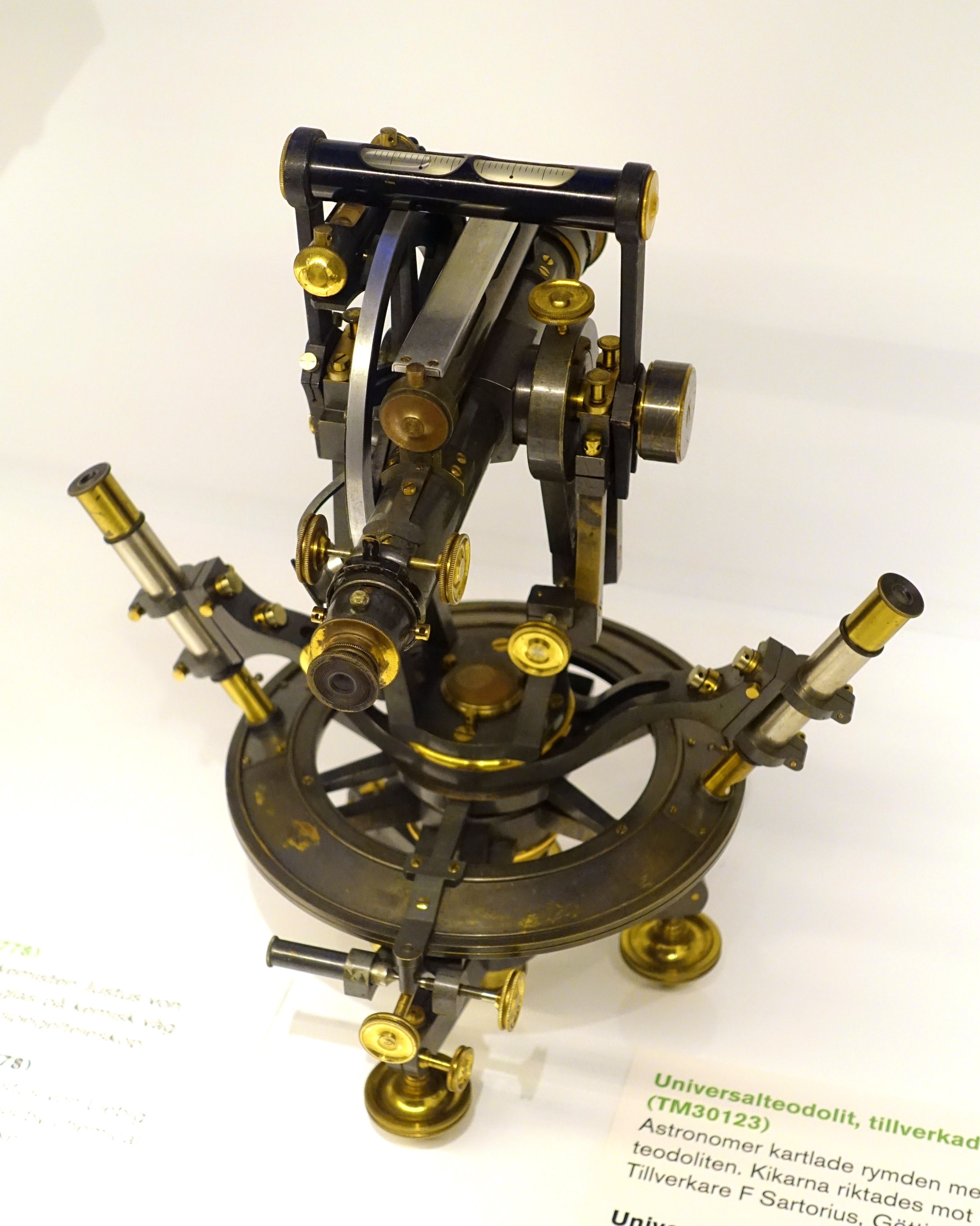 Exhibit in the Tekniska museet, Stockholm, Sweden. This work is old enough so that it is in the public domain.